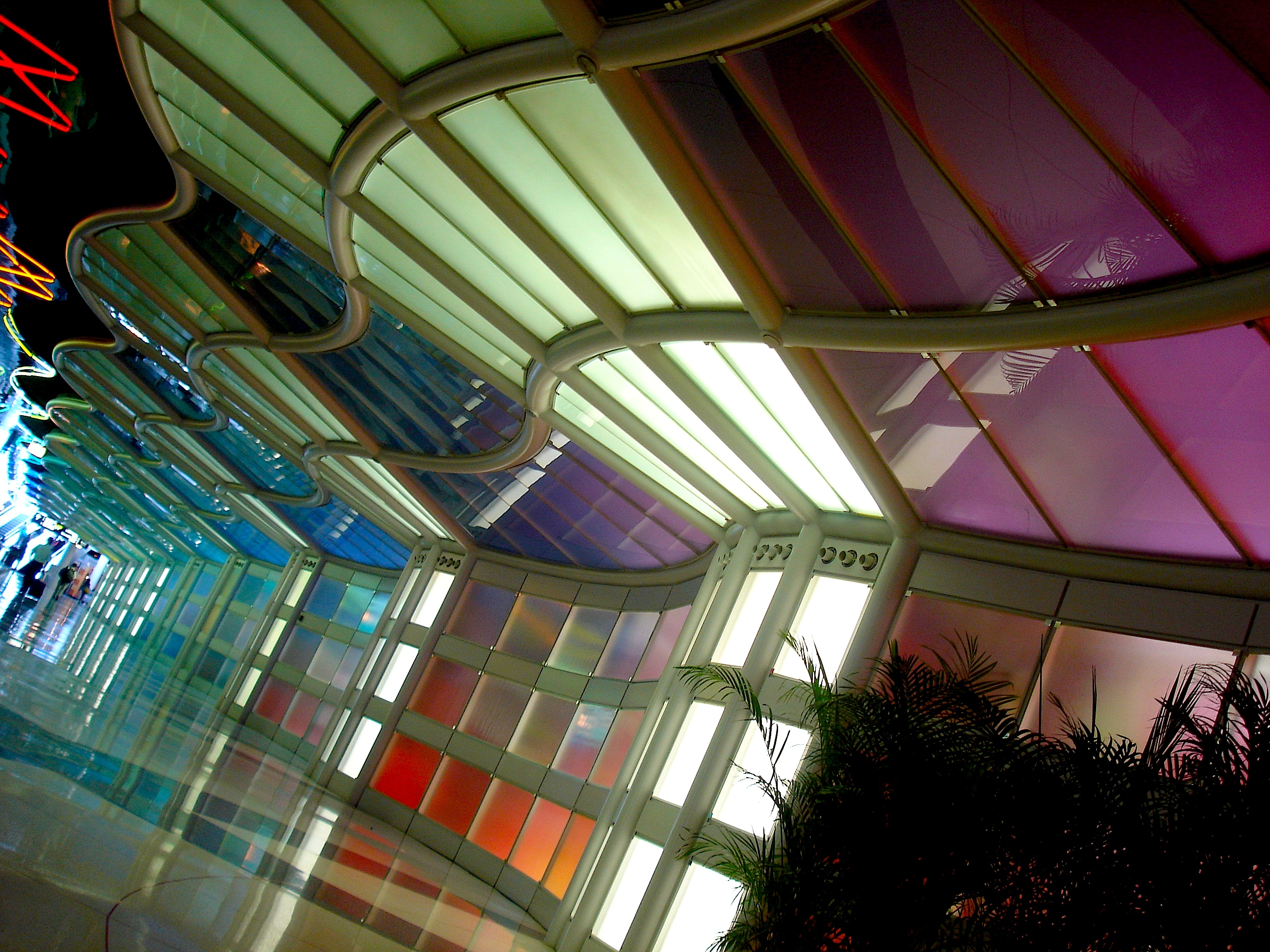 the "tunnel of love"